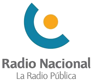 Logo of LRA Radio Nacional Argentina.